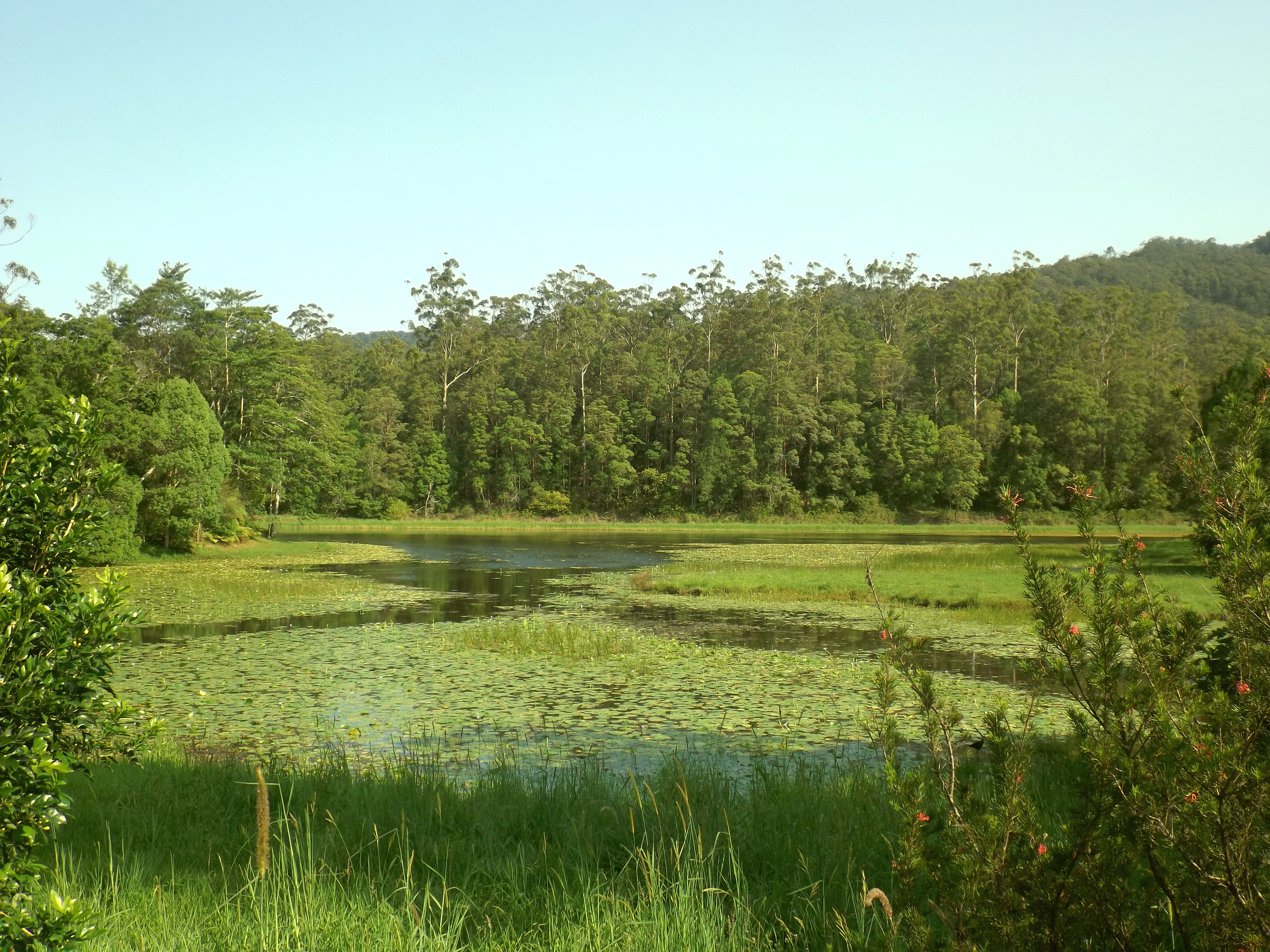 Photo of Tallebudgera Creek Dam in Tallebudgera Valley, Gold Coast City, Queensland, Australia.